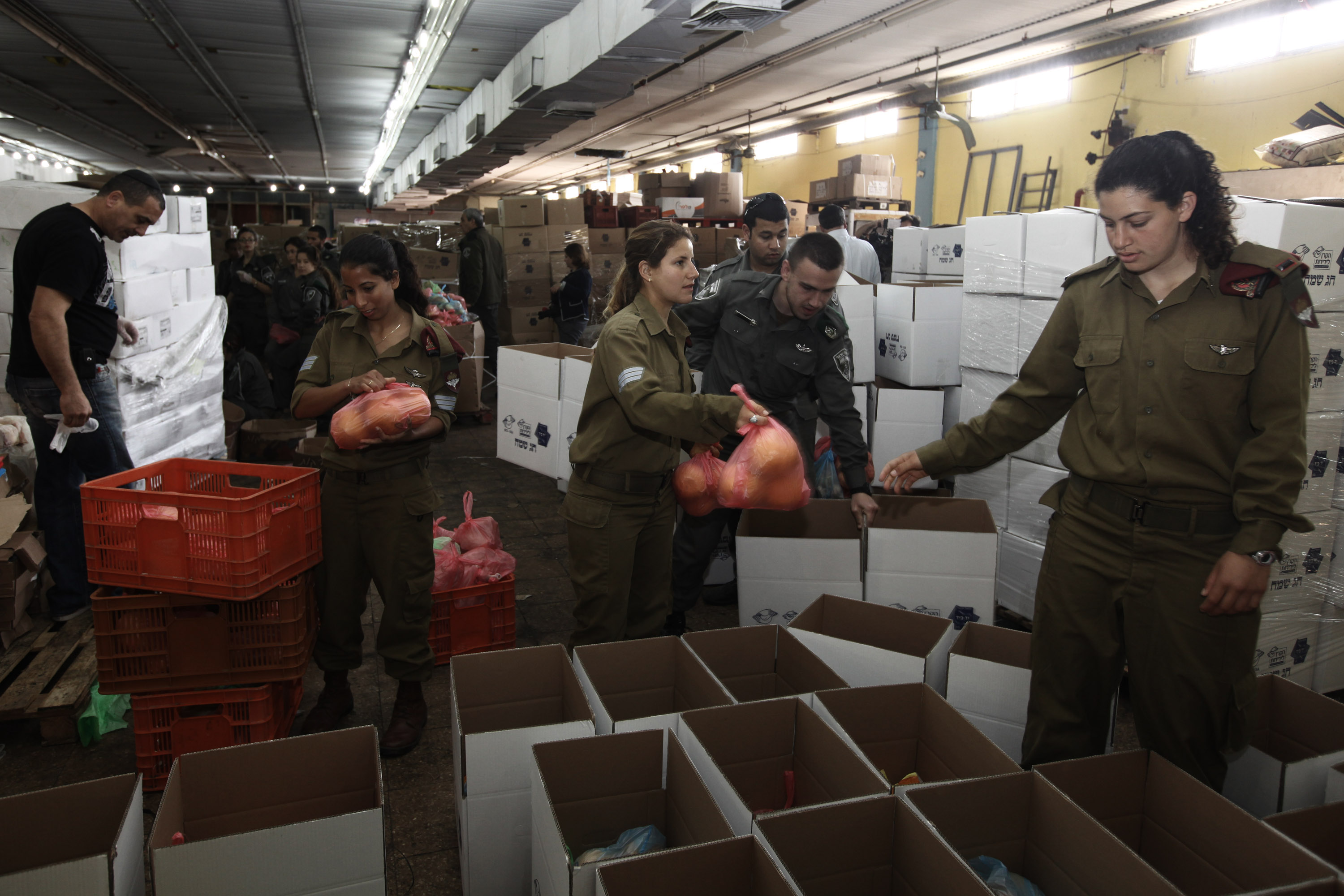 IDF soldiers and other volunteers packed produce, canned food, and other cooking staples into boxes at the Yad B’Yad warehouse in Lod in time to distribute to needy families before Passover. The Fellowship helped to fund the Yad B’Yad program which will feed some 5,000 people from many impoverished communities. Each box includes chicken, fish, dry food, oil, fruits, vegetables and, of course, matzah. Rabbi Yechiel Eckstein was on hand to welcome the visitors and wish them a blessed Pesach.